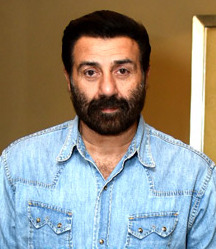 Actor Sunny Deol promoting his film Pal Pal Dil Ke Paas in Delhi